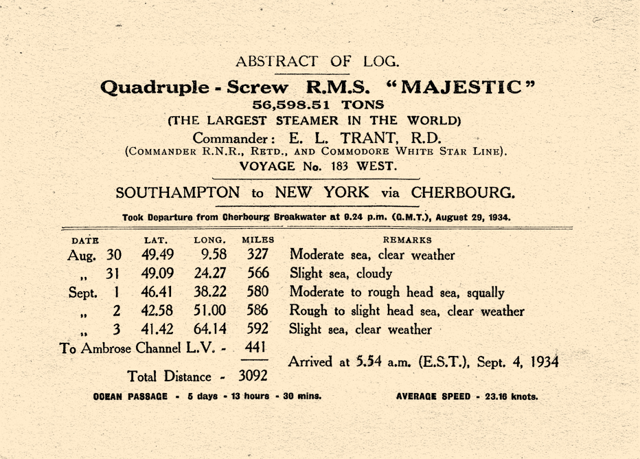 Abstract of Log, R.M.S. "Majestic" , Voyage #183 Westbound, Southampton to New York via Cherbourg, August 29 - September 4, 1934